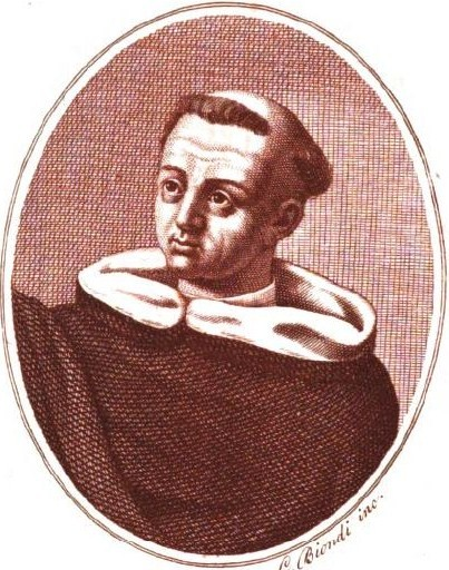 Pietro Geremia, Sicilian Dominican and blessed